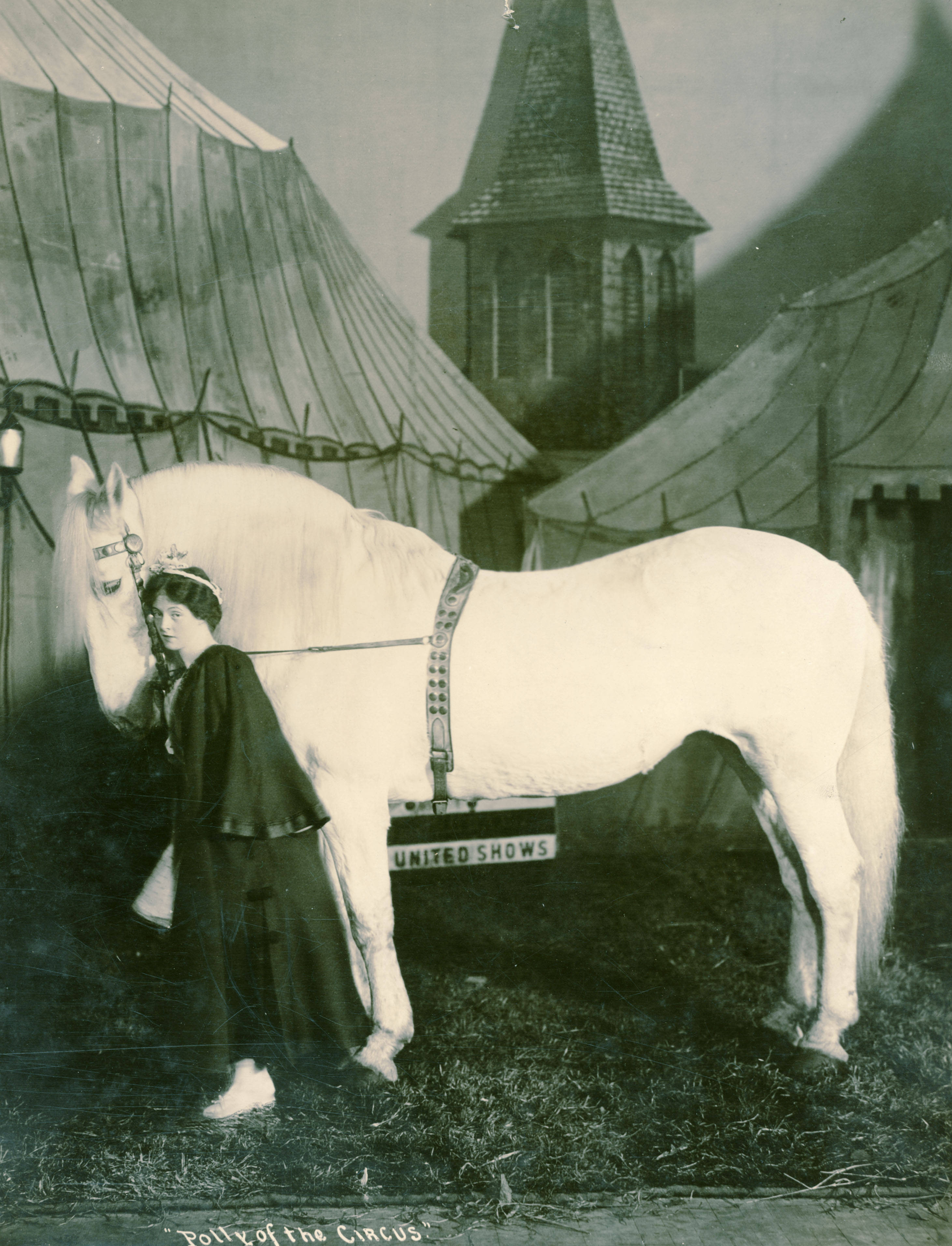 Given description: A scene from "Polly of the Circus," which opened Aug. 15, 1909, at the Moore Theater, Seattle. Content: Other sources[1] say this is Mabel Taliaferro (the original lead actor in the 1907 play Polly of the Circus). Since this photograph also appeared on the cover of the THE BURR MCINTOSH MONTHLY MAGAZINE in March 1908, this is probably a pre-made production still and not an image of the 1909 Moore Theater production. Subjects: plays